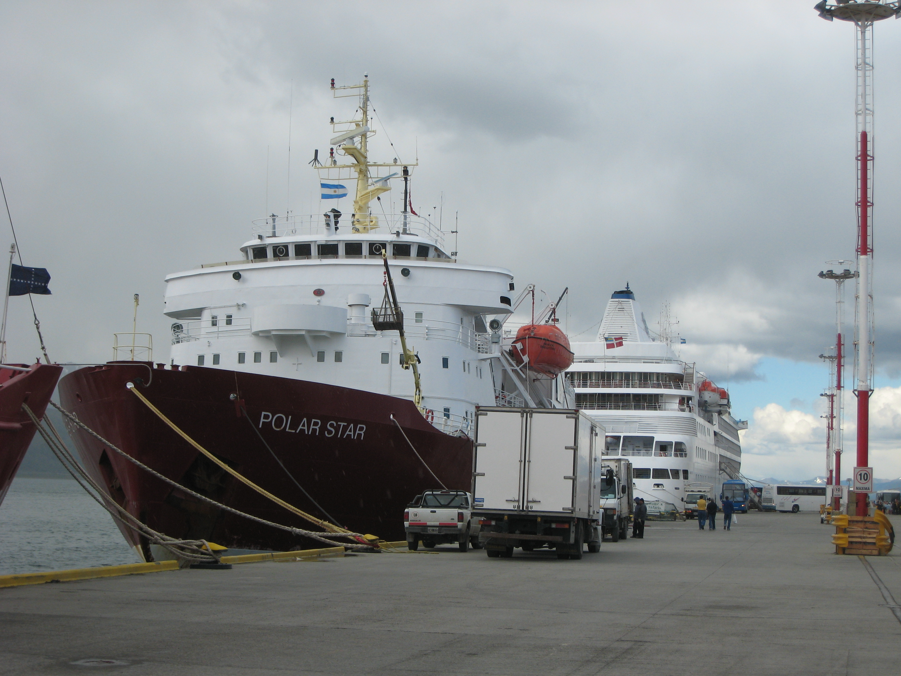 MS Polar Star in Ushuaia 30 december 2007